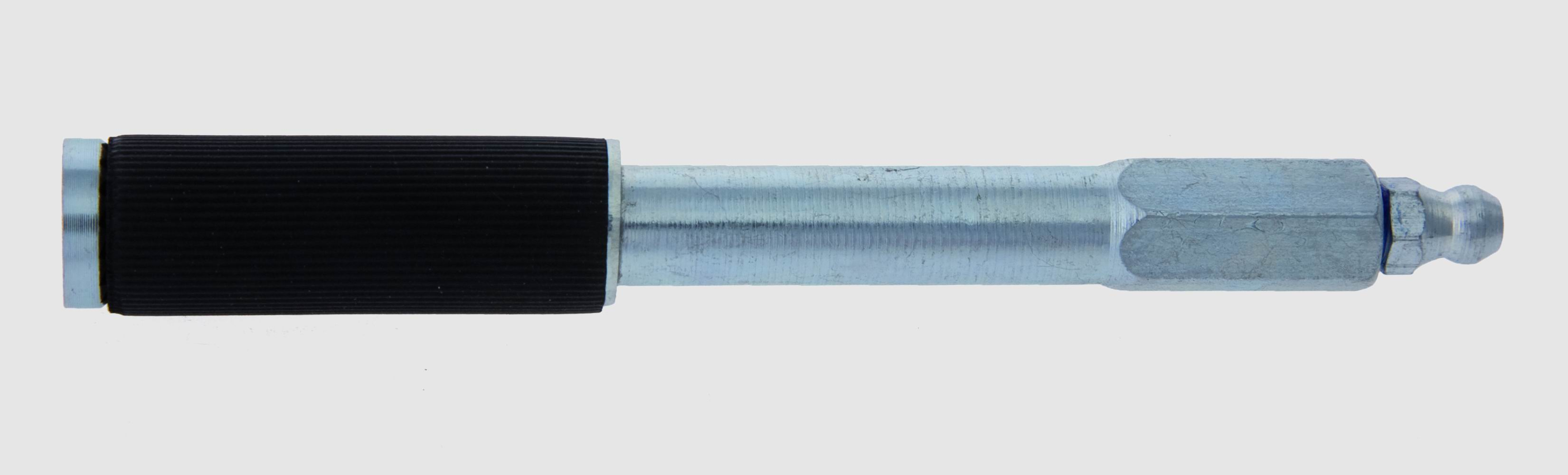 steel packer 13x120mm, thrust piece 40mm